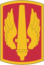 18th FA BDE Patch without Airborne Tab